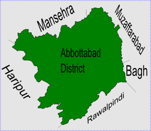 Small image of Abbottabad District Pakistan, the names of the neighbouring districts to Abbottabad are also shown.